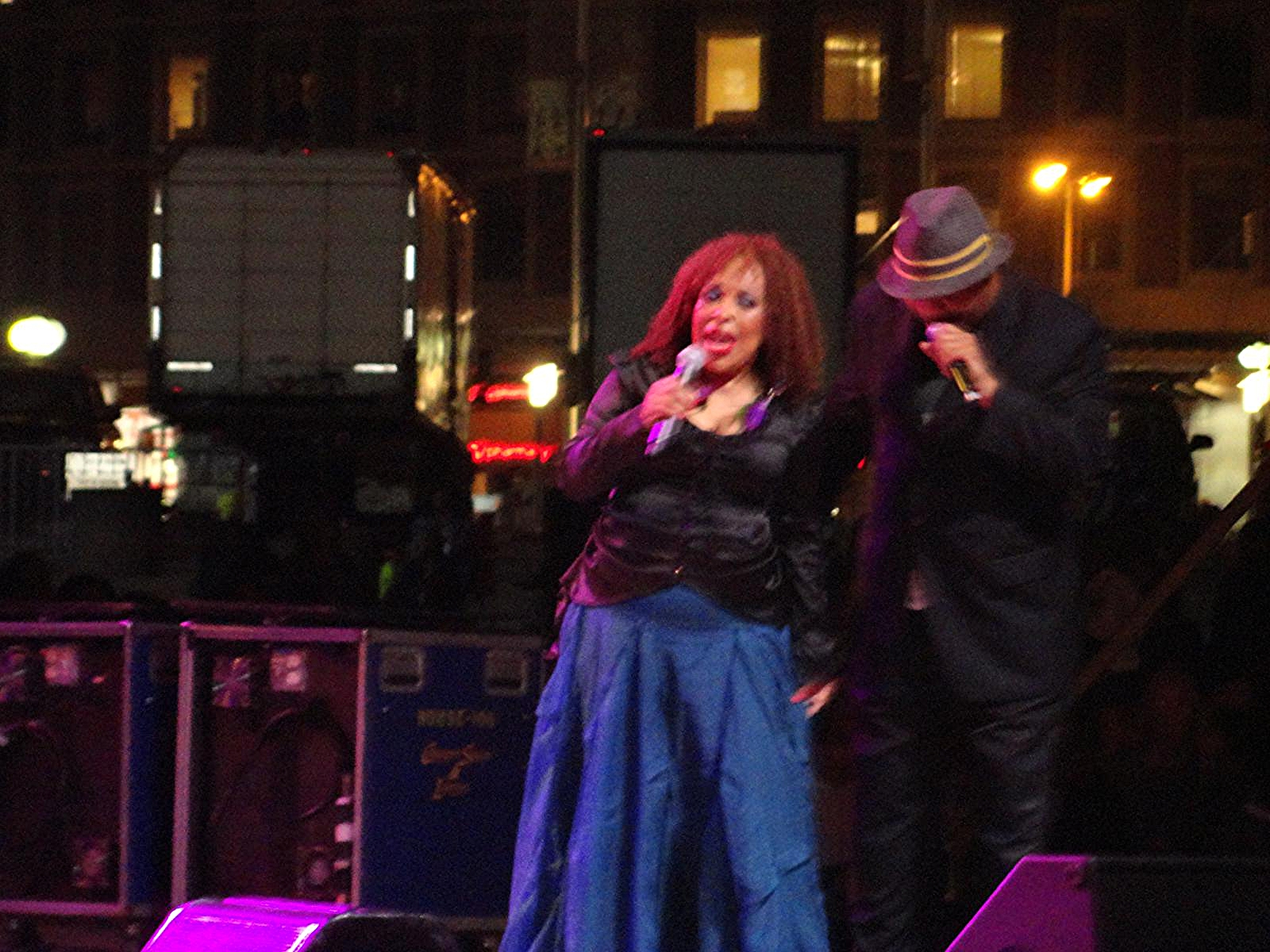 Roberta Flack-legendary soulful singer-Boston, Mass.-Aug. 28, 2013 Legendary singer Roberta Flack--hit songs-"Feel Like Making Love", "Killing Me Softly", "The First Time Ever I Saw Your Face"and many others.